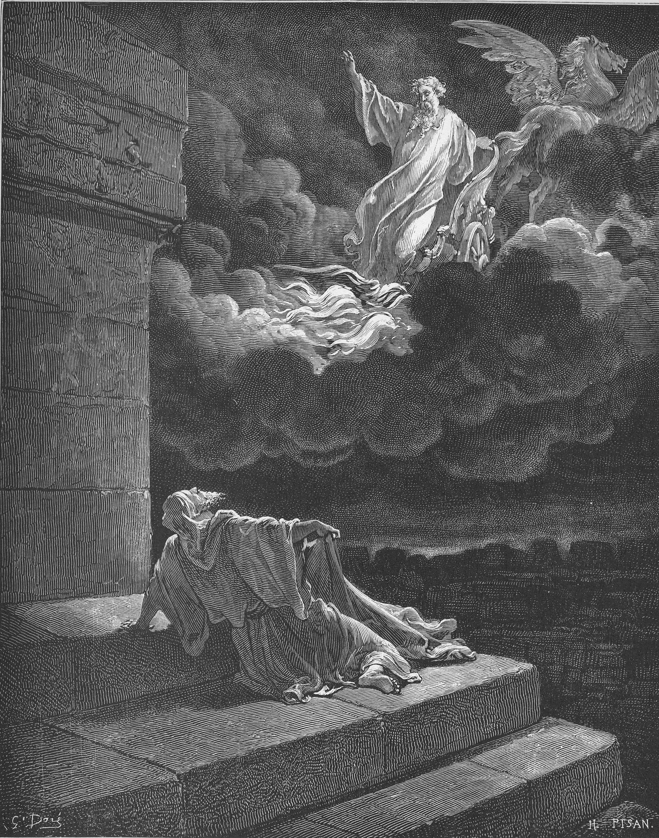 Elijah Ascends to Heaven in a Chariot of Fire (2Kings 2:1-15)